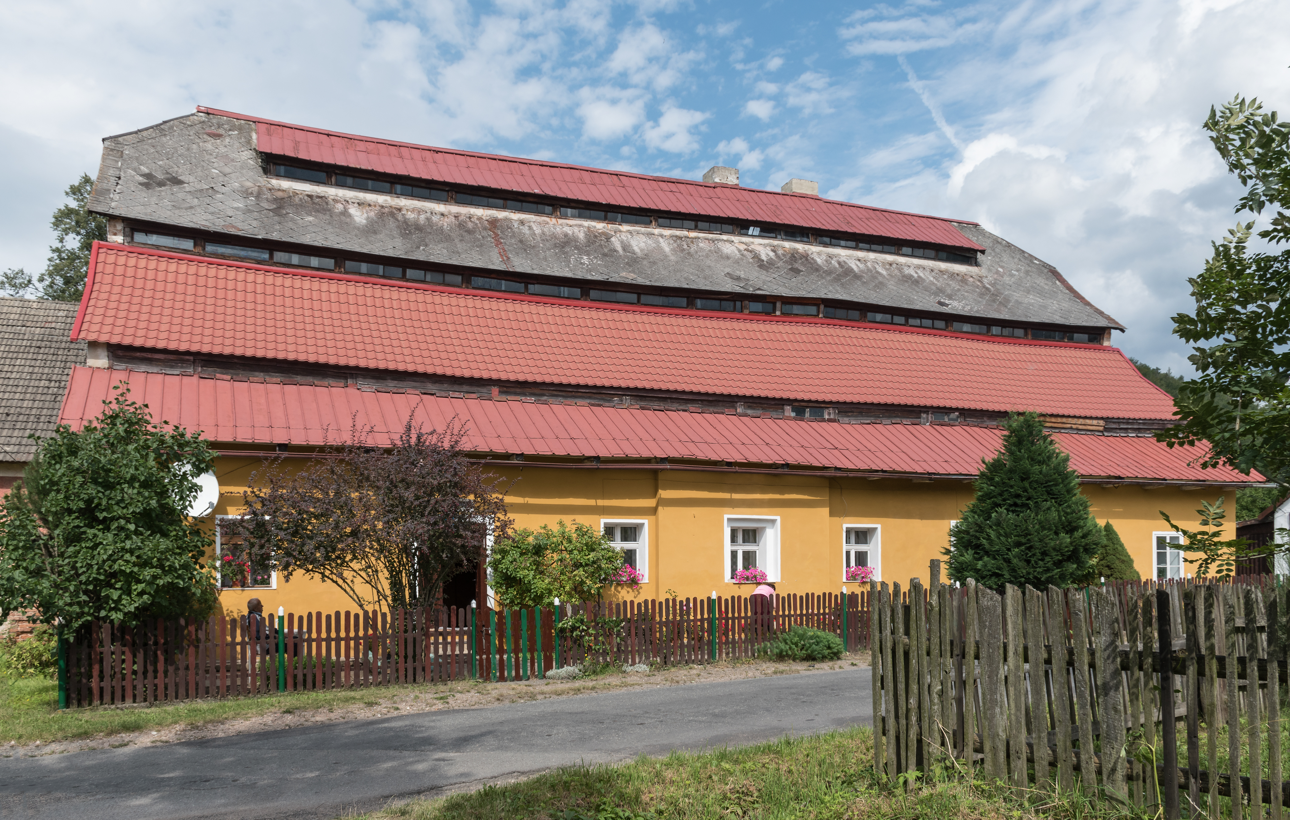 Watermill in Goworów Wikidata has entry Q30048868 with data related to this item.